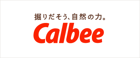 Logo of Calbee (Japanese company) with its corporate slogan as of 2012